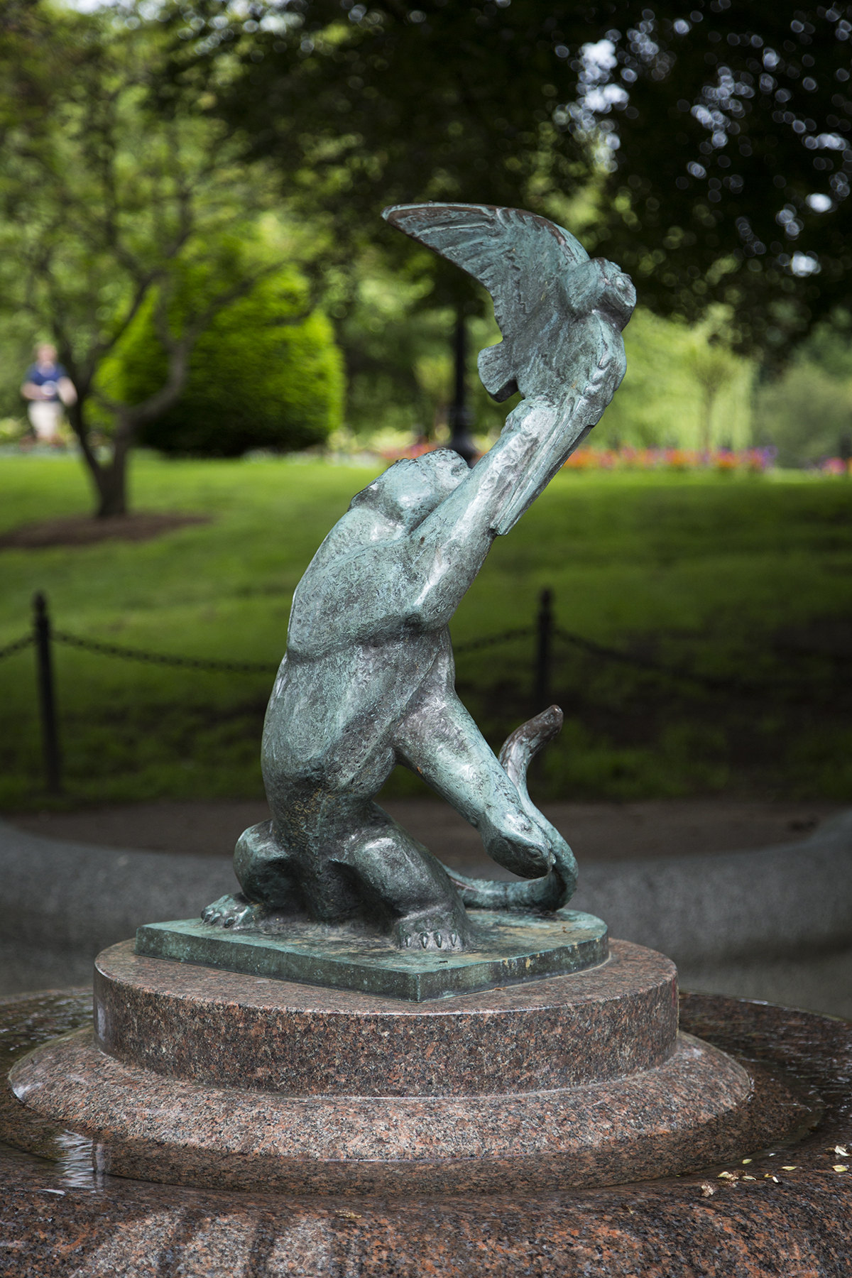 Boston Public Garden, Beacon, Charles, Boylston, and Arlington Sts.